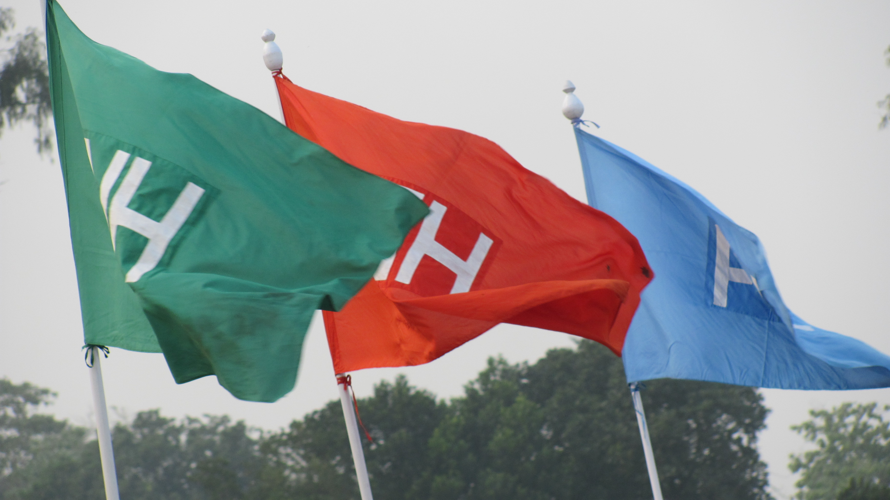 The three flags depicting the three Houses of MCC